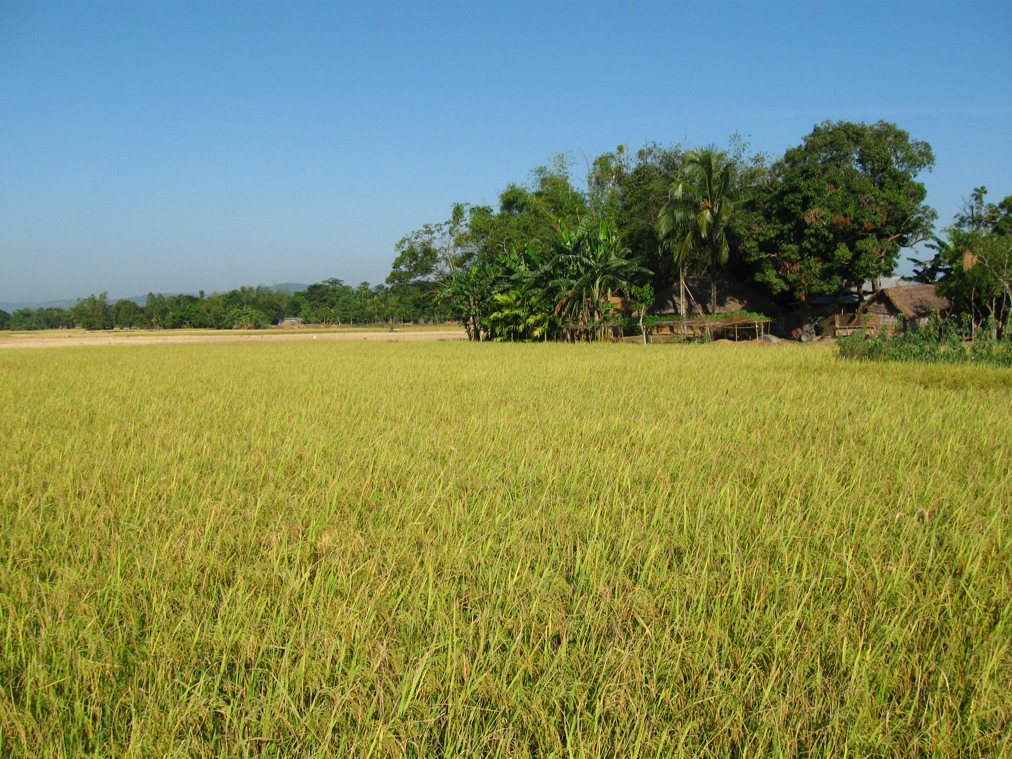 A rice field and an adjacent country house in Bangladesh